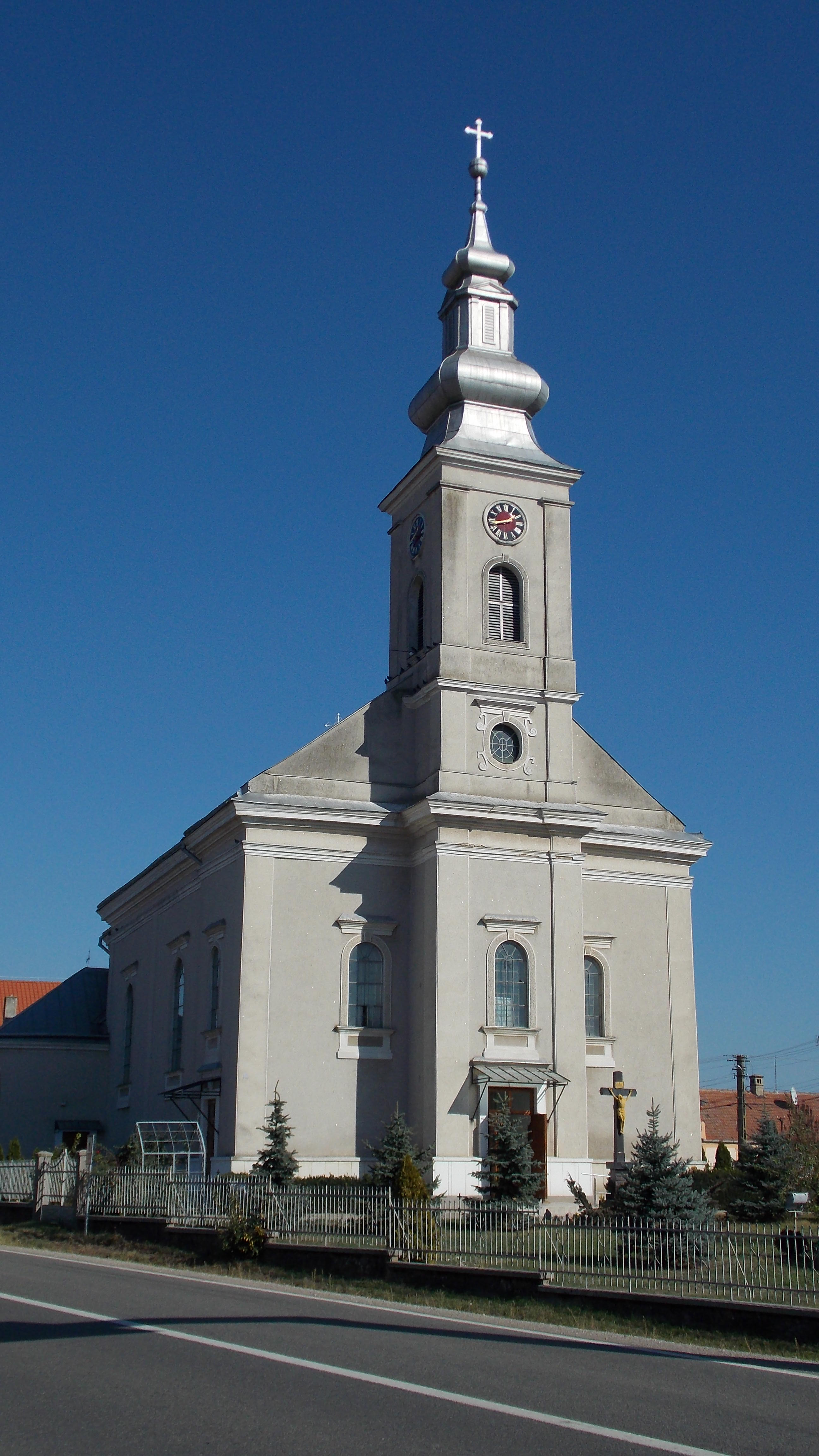 "St. Elisabeth" Church, Petresti, Satu-Mare county, RomaniaRomână: Biserica "Sf. Elisabeta", Petrești, jud. Satu Mare